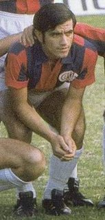 Image of Chazarreta during his time with San Lorenzo de Almagro